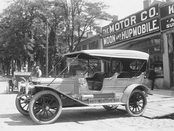 1910 Winton Six, on sale in Salt Lake City, Utah, USA